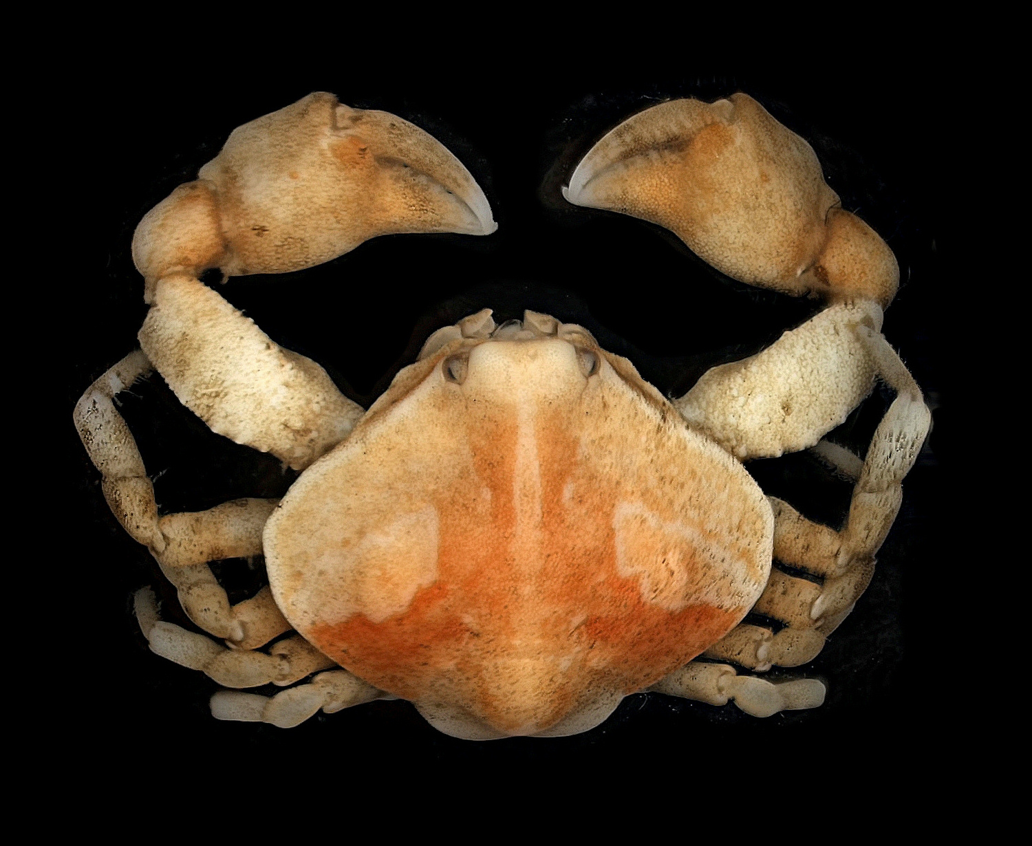 Bryer's nut crab collected at Roscoff, France in 1985.